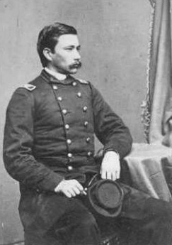 George Dashiell Bayard, Union General. Source: [1]